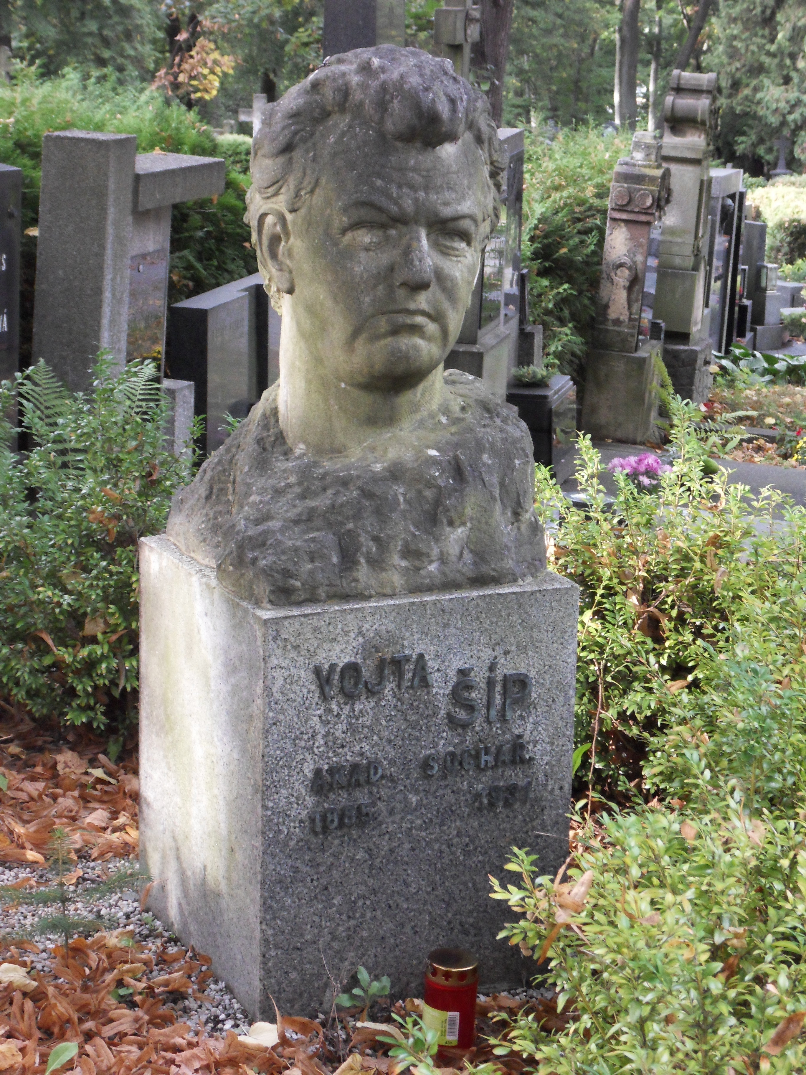 Grave of Czech sculptor Vojtěch Šíp at the Central Cemetery in Pilsen, Czech Republic